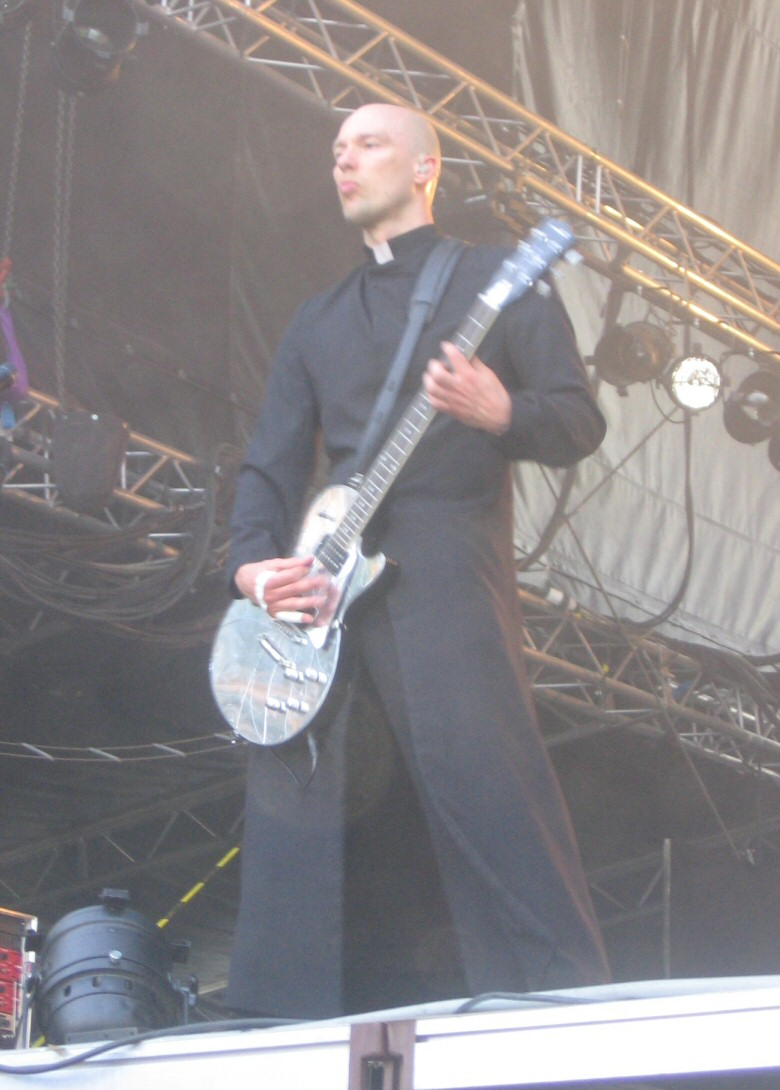 Flux (Oomph!) at Ruisrock 2006 (Turku, Finland).